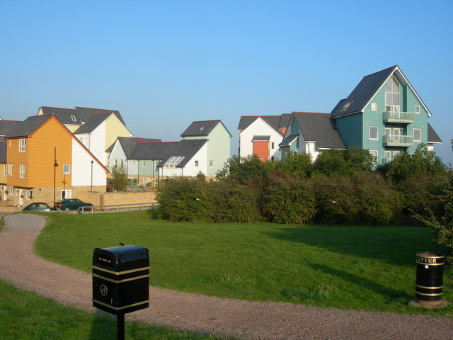 The Fishing Village, St Mary's Island (2) Viewed from Finsborough Down.